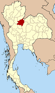 Map of Thailand highlighting Phitsanulok province